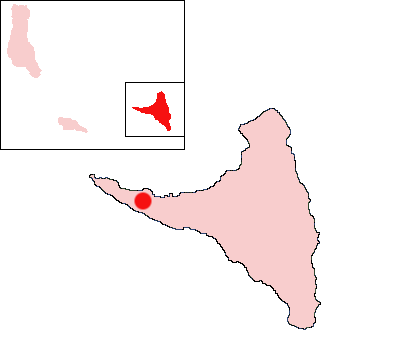 Sima, Anjouan, Comoros Location Map; created with the GIMP. Made by User:Acntx.